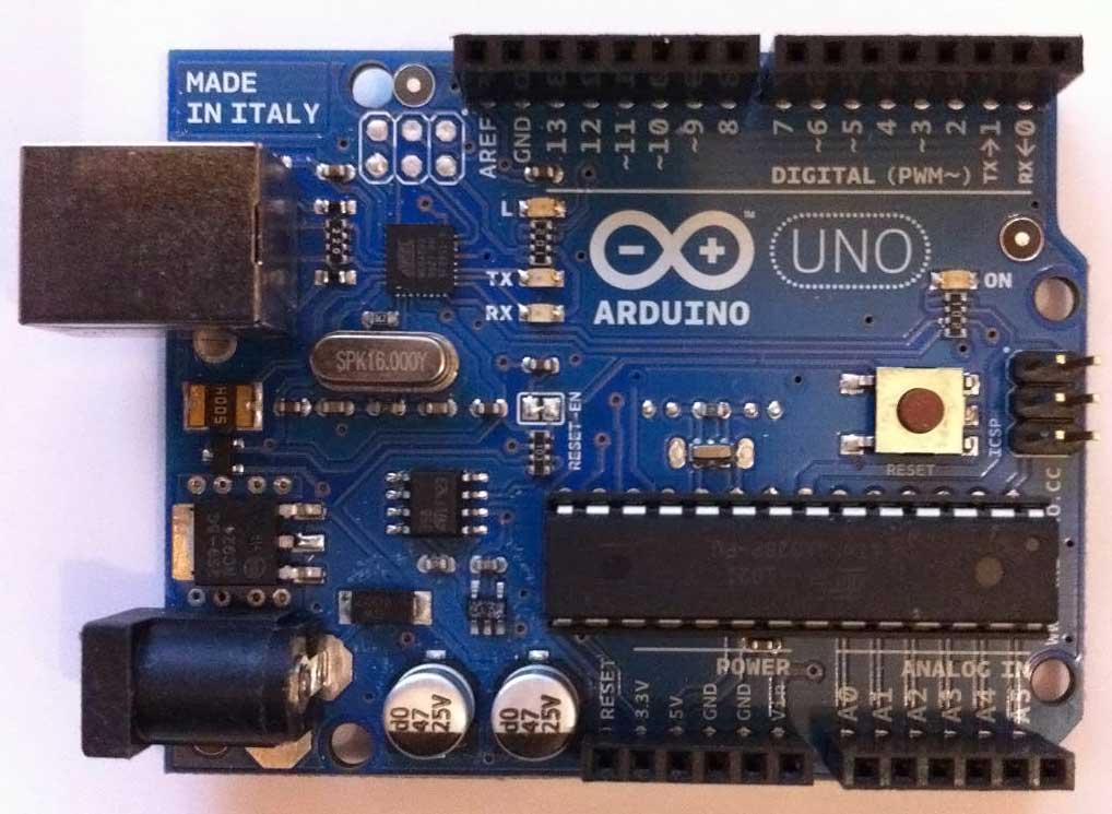 Arduino Uno